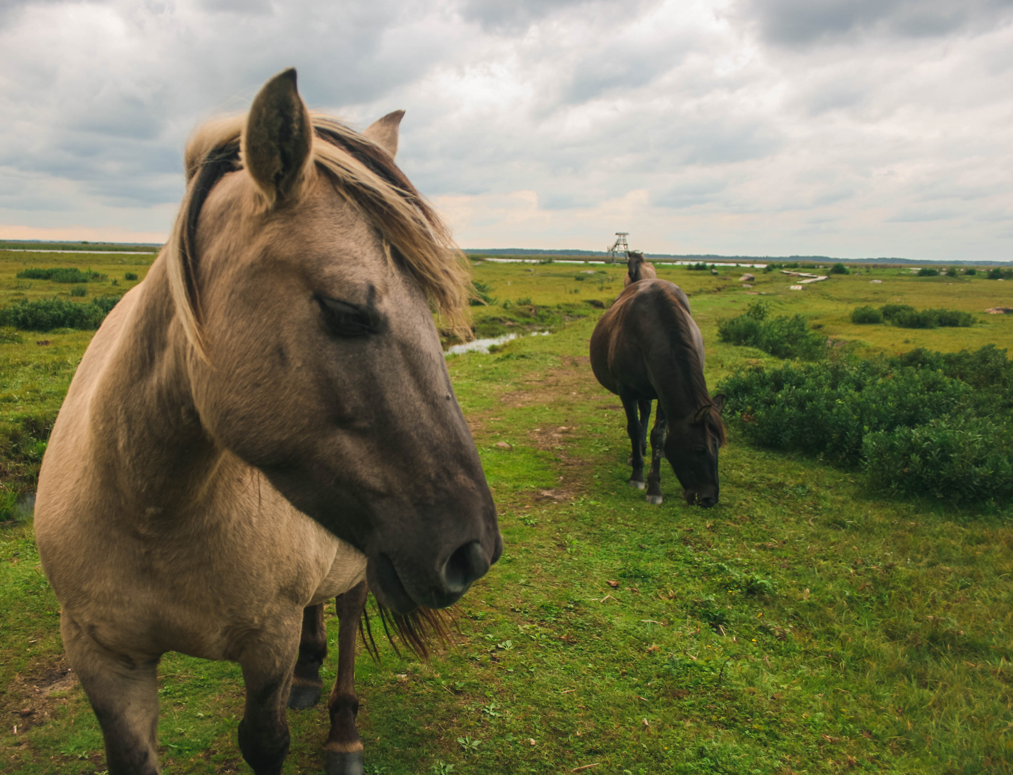 Wild Konik horses in the floodplains of Engure lake. Engure lake nature park.